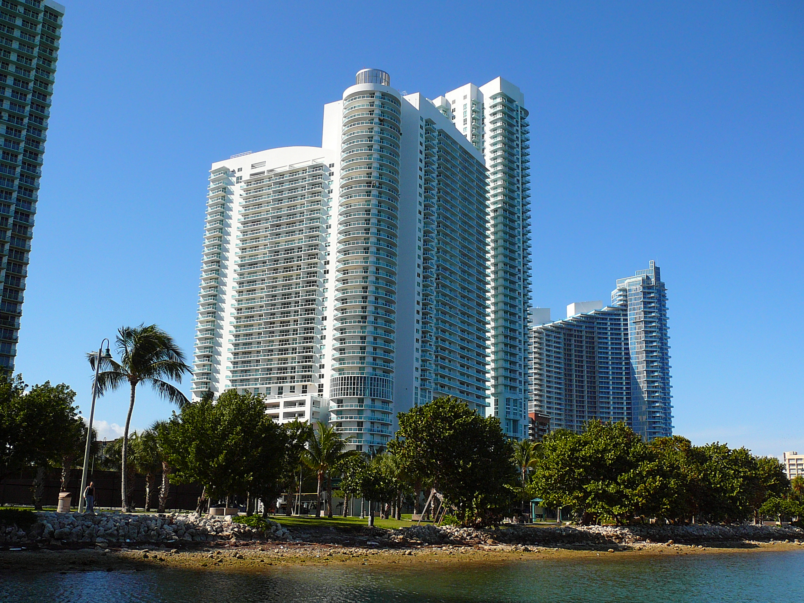 Digital photo taken by Marc Averette. The southern end of the Edgewater neighborhood, just north of Downtown Miami, Florida, United States.